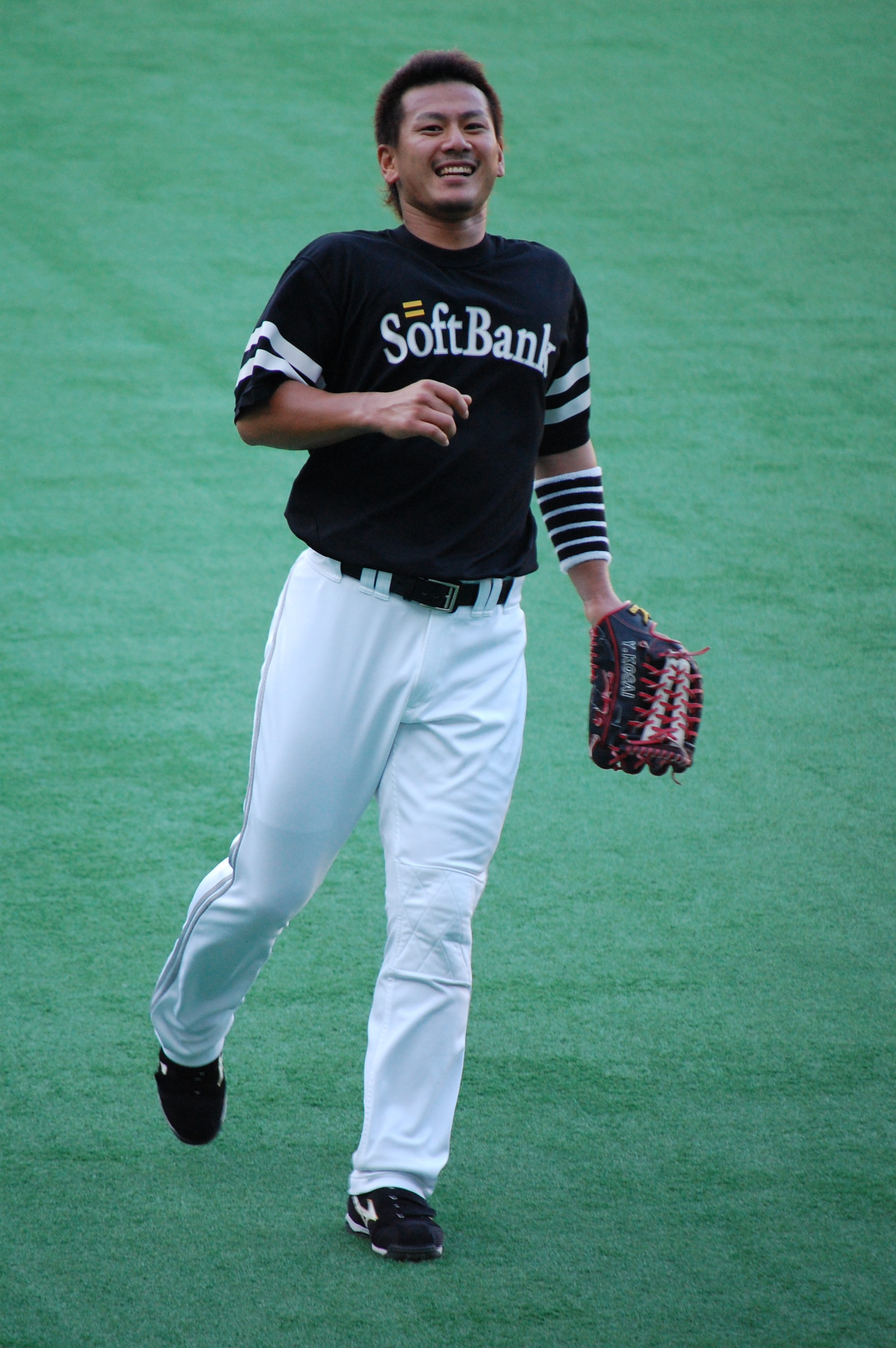 Yusuke Kosai, outfielder of the Fukuoka SoftBank Hawks, at Chiba Marine Stadium.